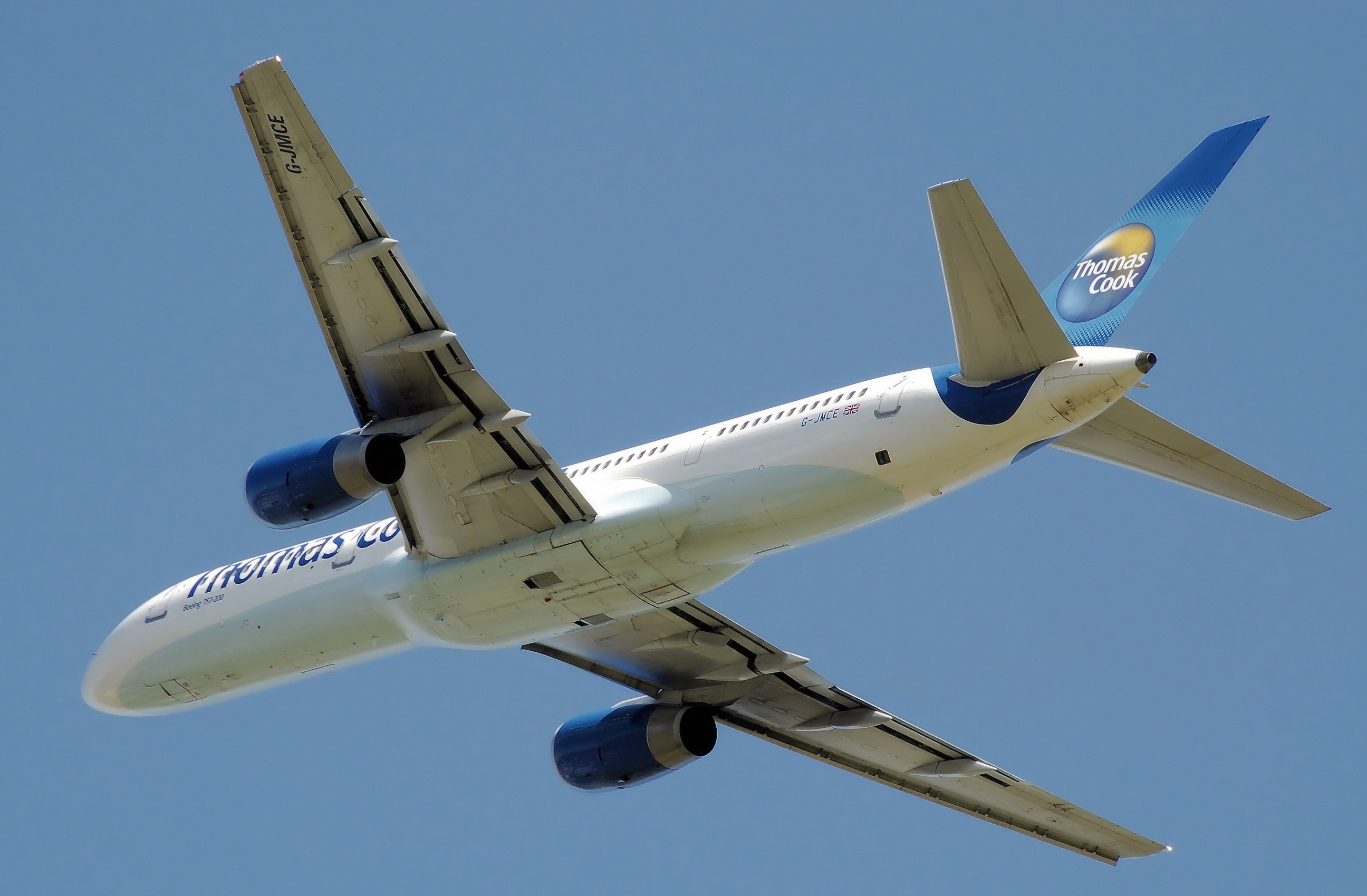 Thomas Cook Airlines Boeing 757-200 (G-JMCE) takes off from Birmingham International Airport, England.